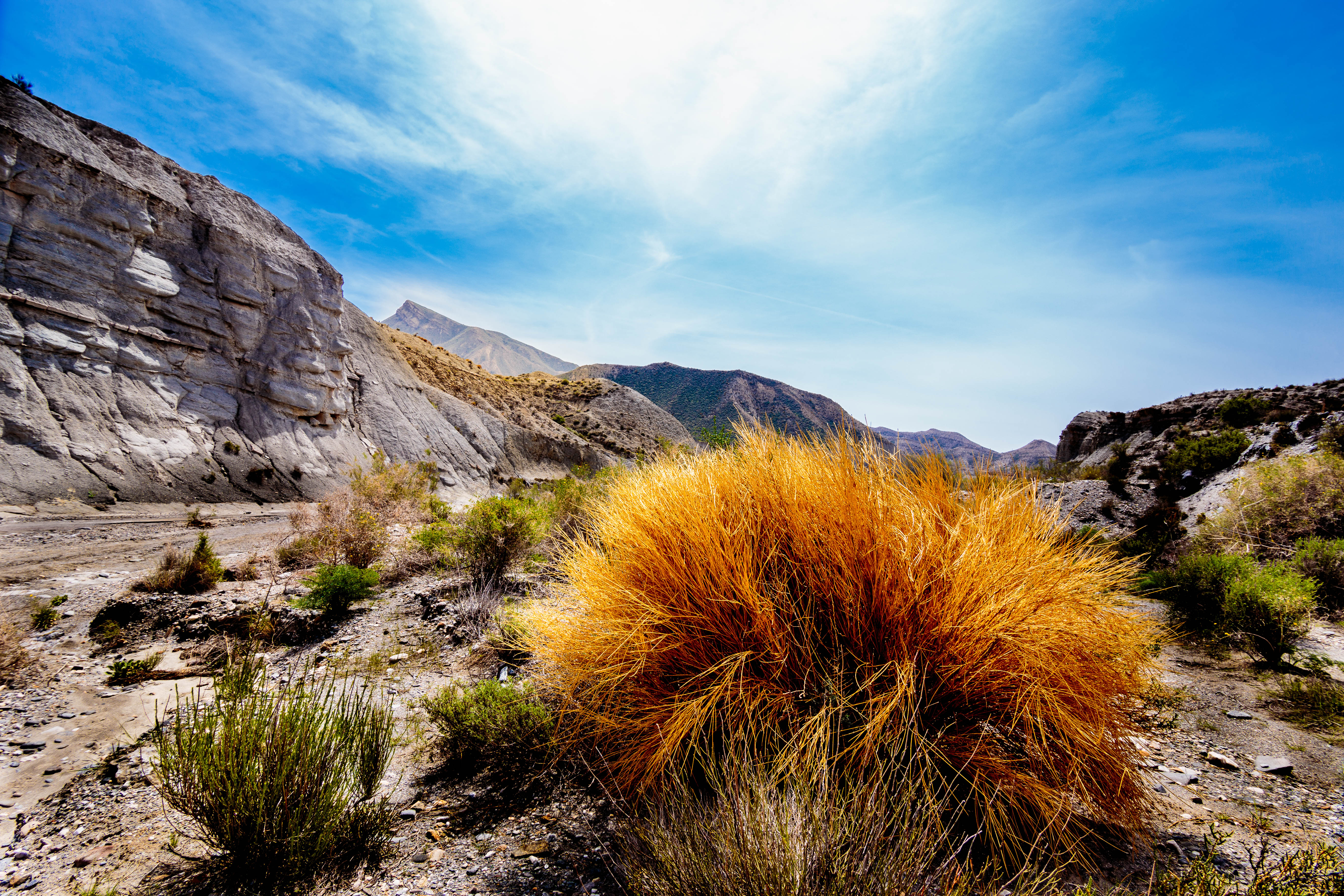 Early morning in the Tabernas Desert This is a photography of a Site of Community Importance in Spain with the ID: ES0000047. Natura2000 entry, EEA entry